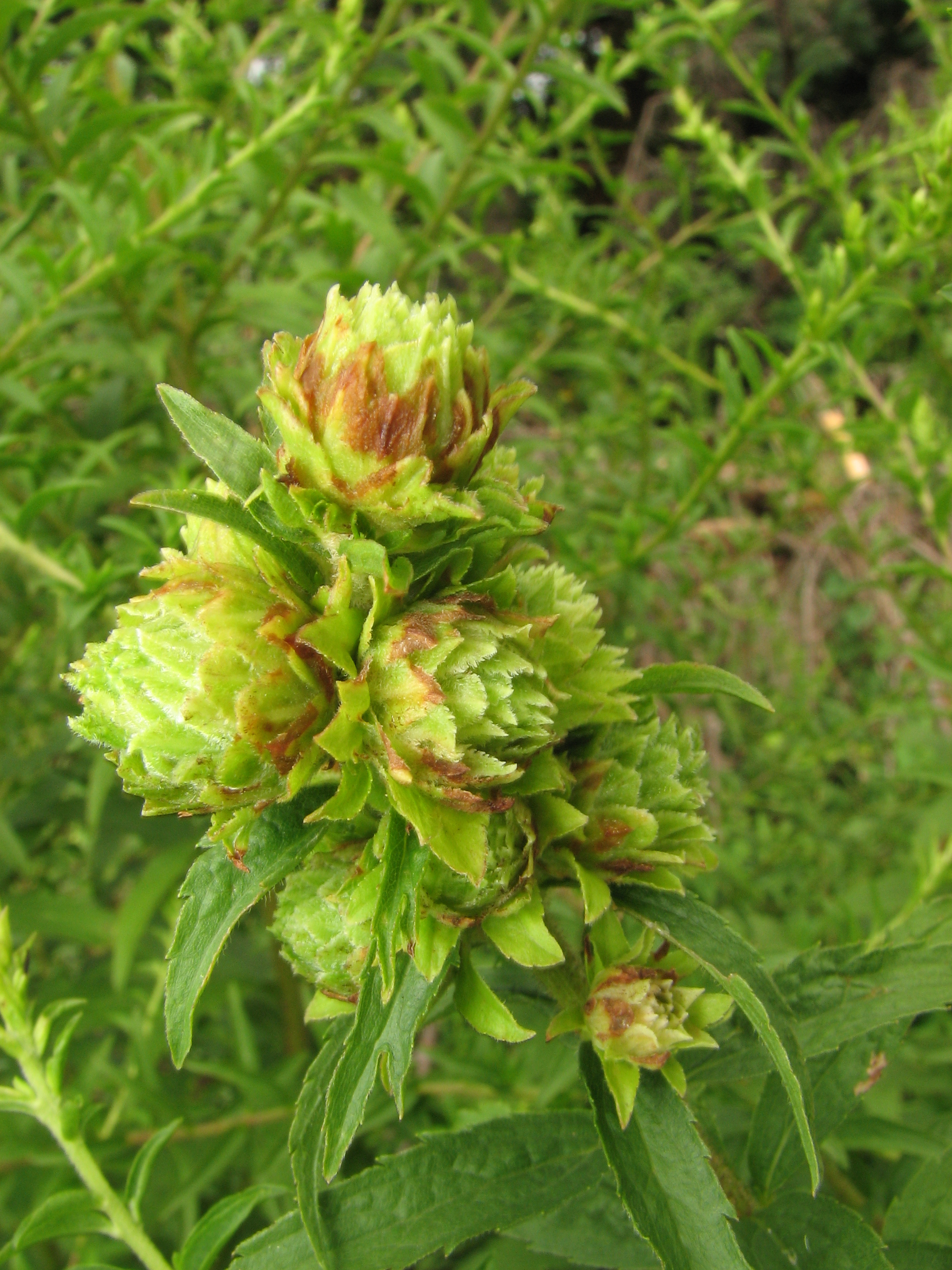 Bunch galls made by Procecidochares atra in goldenrod.Horsham trail. Horsham, Montgomery County, Pennsylvania, USA.